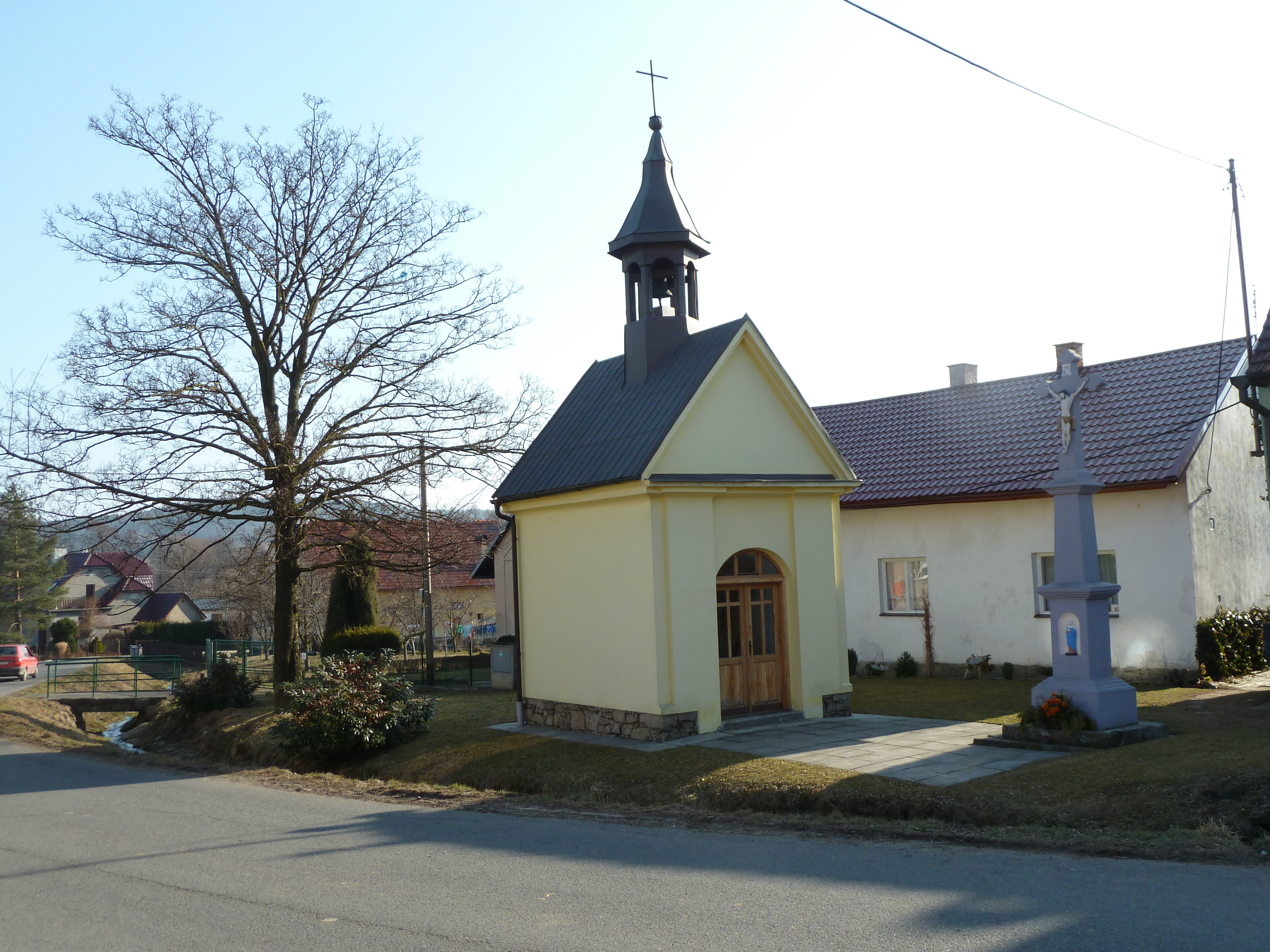 One of chapels in village Straník, part of town Nový Jičín (north-eastern Moravia, Czech Republic)